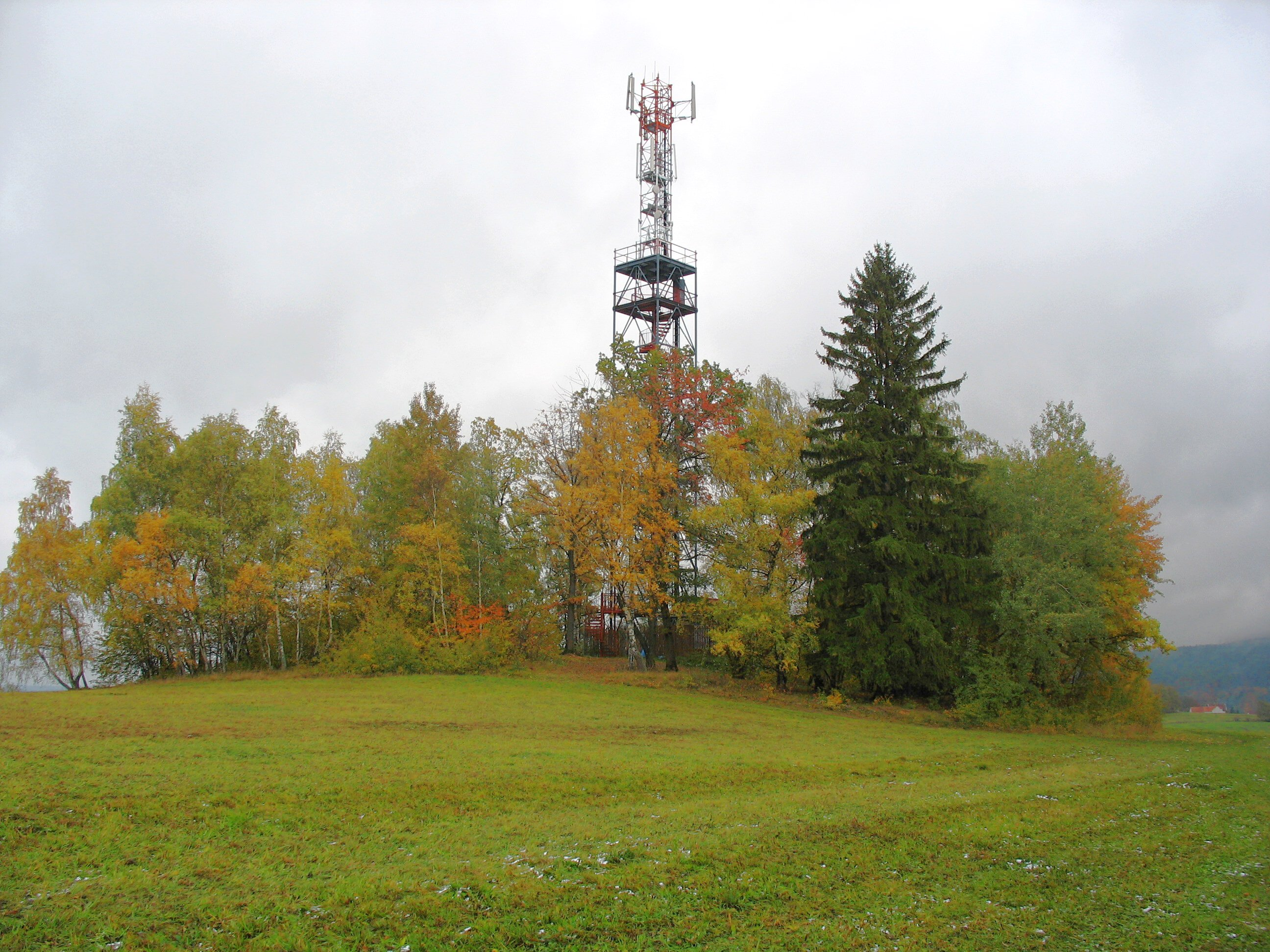 Tower Slabošovka, Czech Republic (Český Krumlov District)